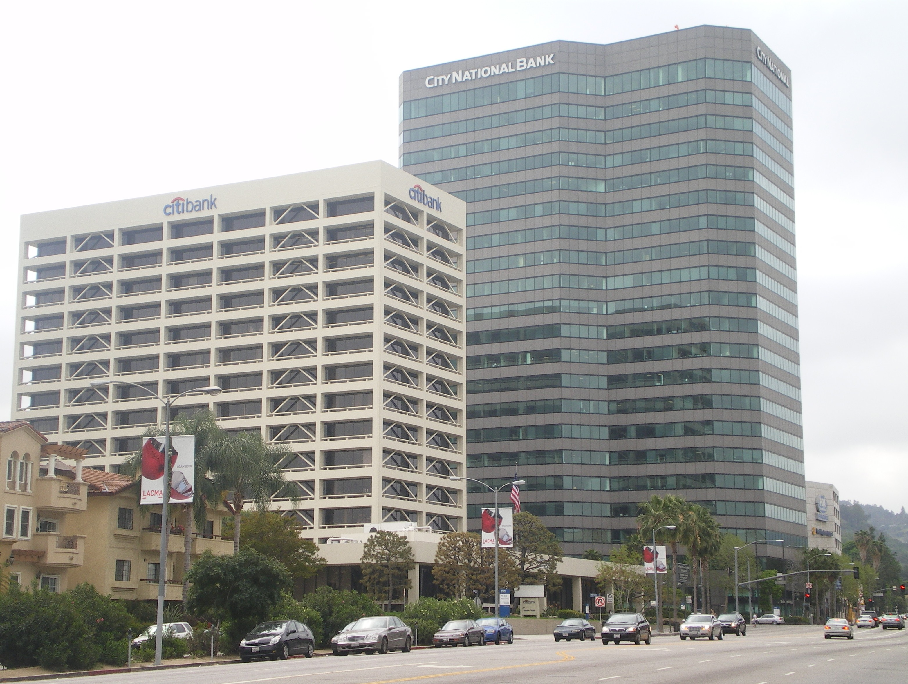 Citibank (1966) and City National Bank (1984) Buildings, Ventura & Sepulveda Blvds., Sherman Oaks, Los Angeles, CA